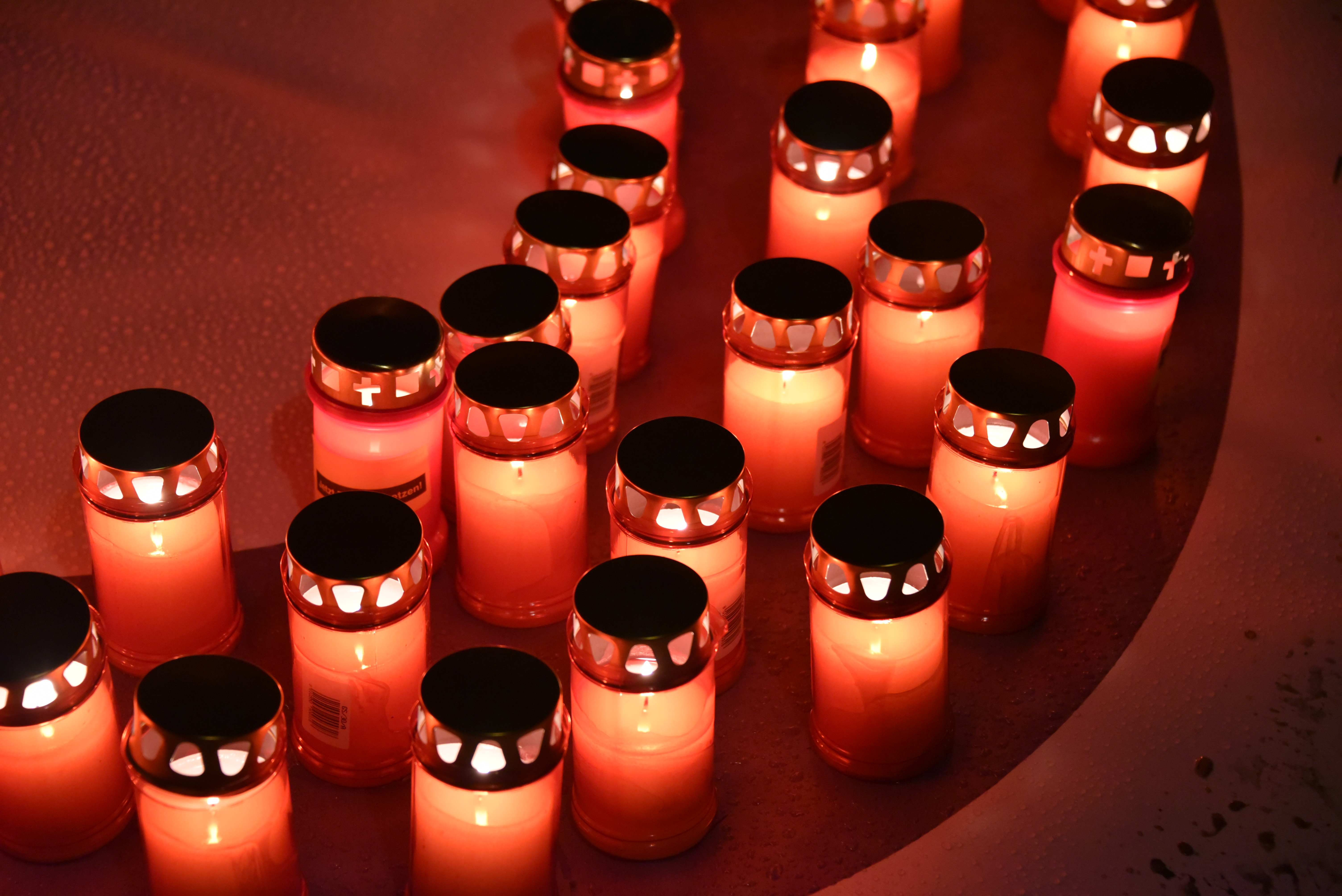 International Holocaust Remembrance Day 2015, manifestation of Jetzt Zeichen setzen!" at the Heldenplatz in Vienna